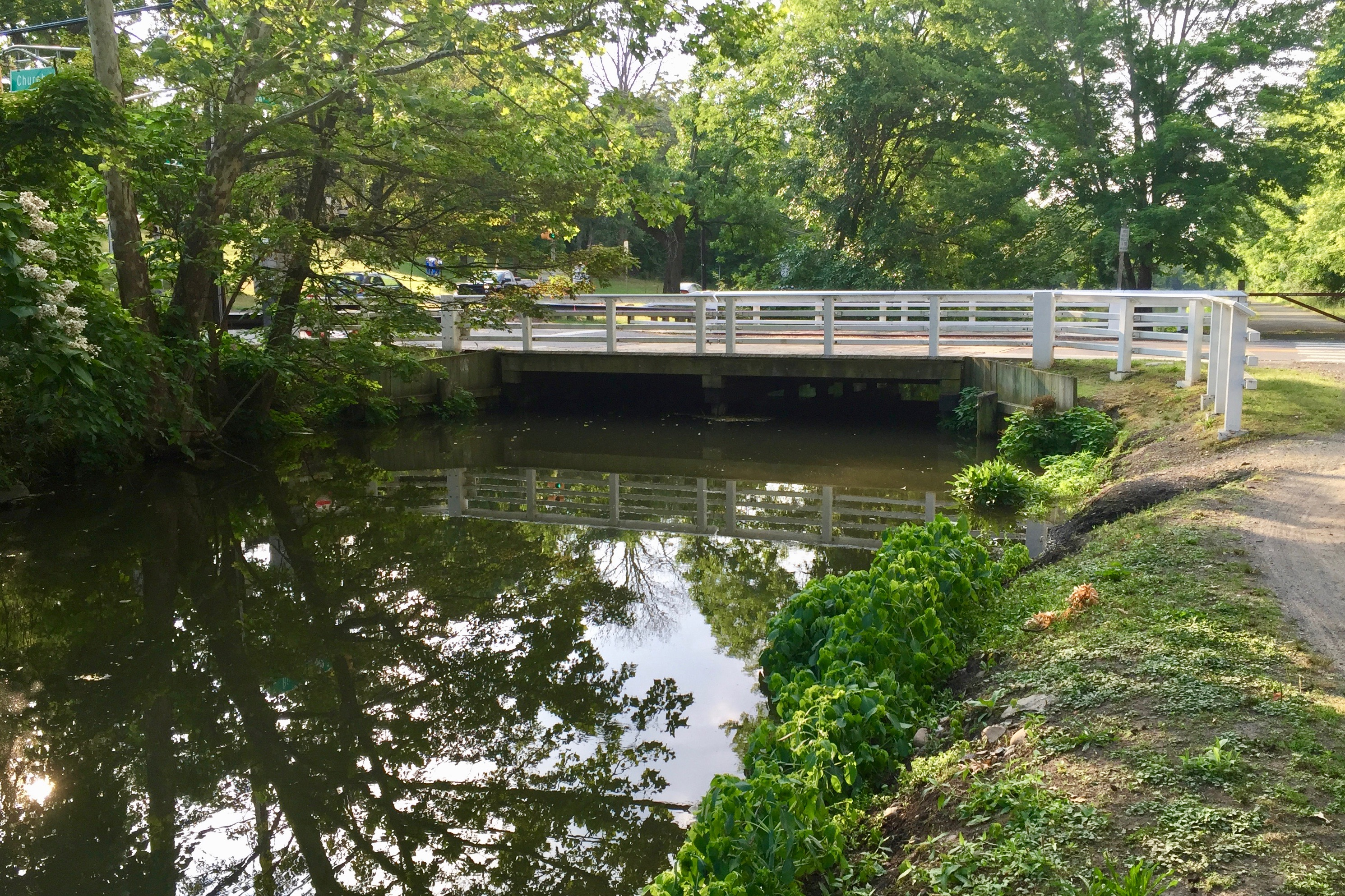 Bridge for Church Street over the Feeder Canal for the Delaware and Raritan Canal at Titusville, New Jersey.